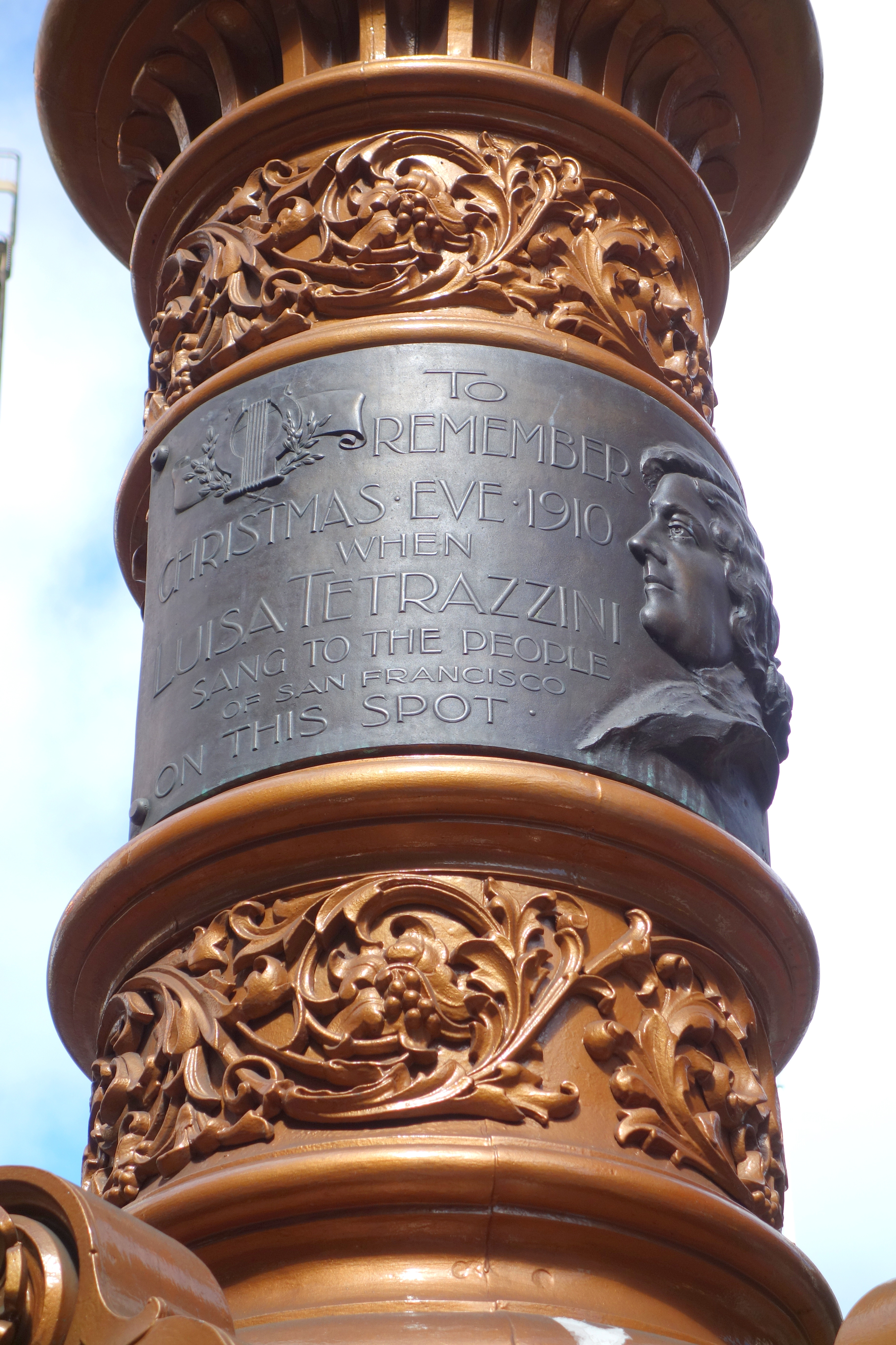 Lotta's Fountain - San Francisco, California, USA. This work was dedicated on September 9, 1875. It is now in the public domain because the artist died more than 70 years ago.